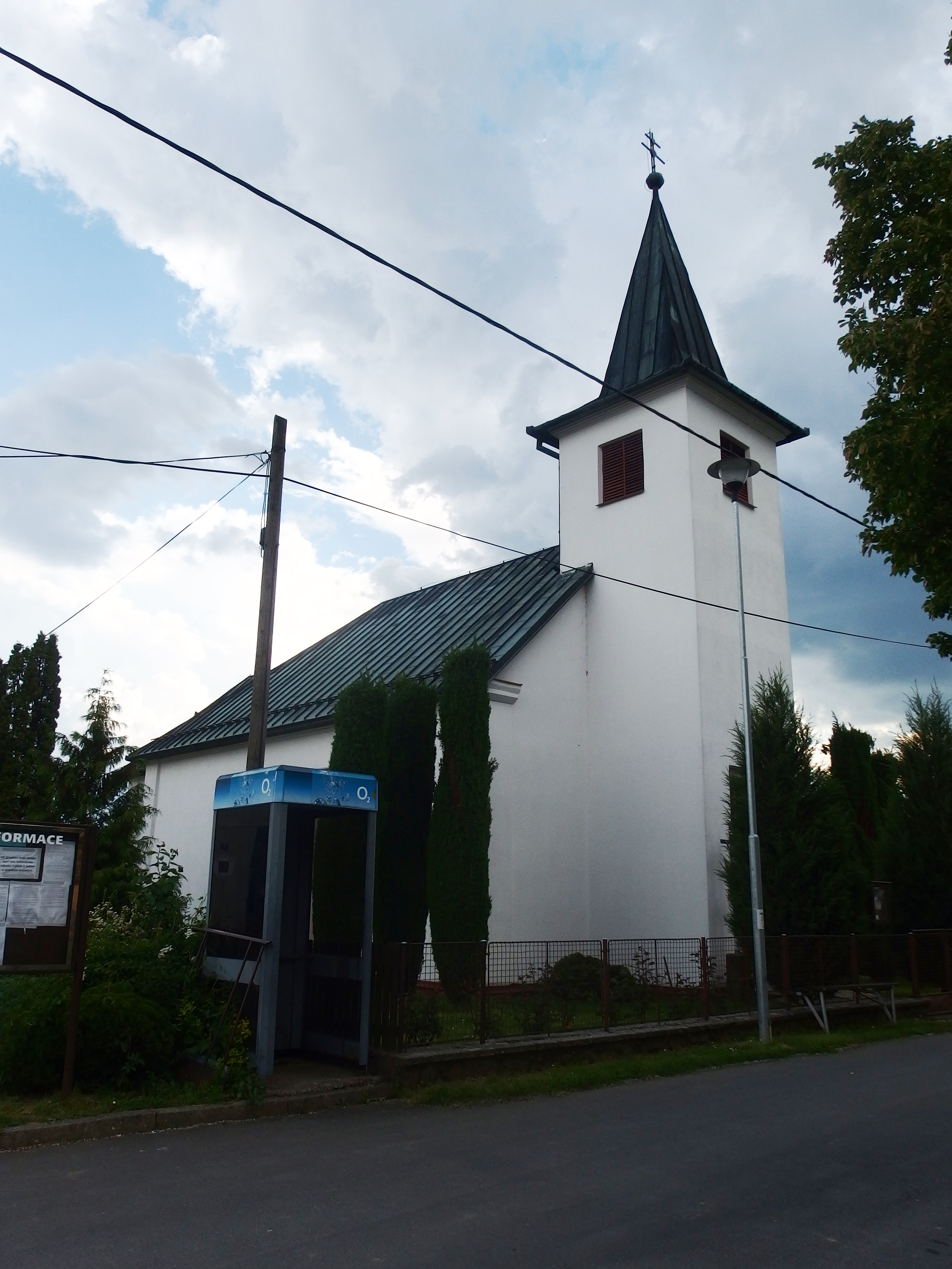 Jívoví, Žďár nad Sázavou District, Czechia.